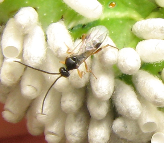 Parasitic wasp Cotesia congregata on hornworm Manduca sexta (no higher resolution). Size: About 3 mm. Abington, Montgomery County, Pennsylvania, USA.